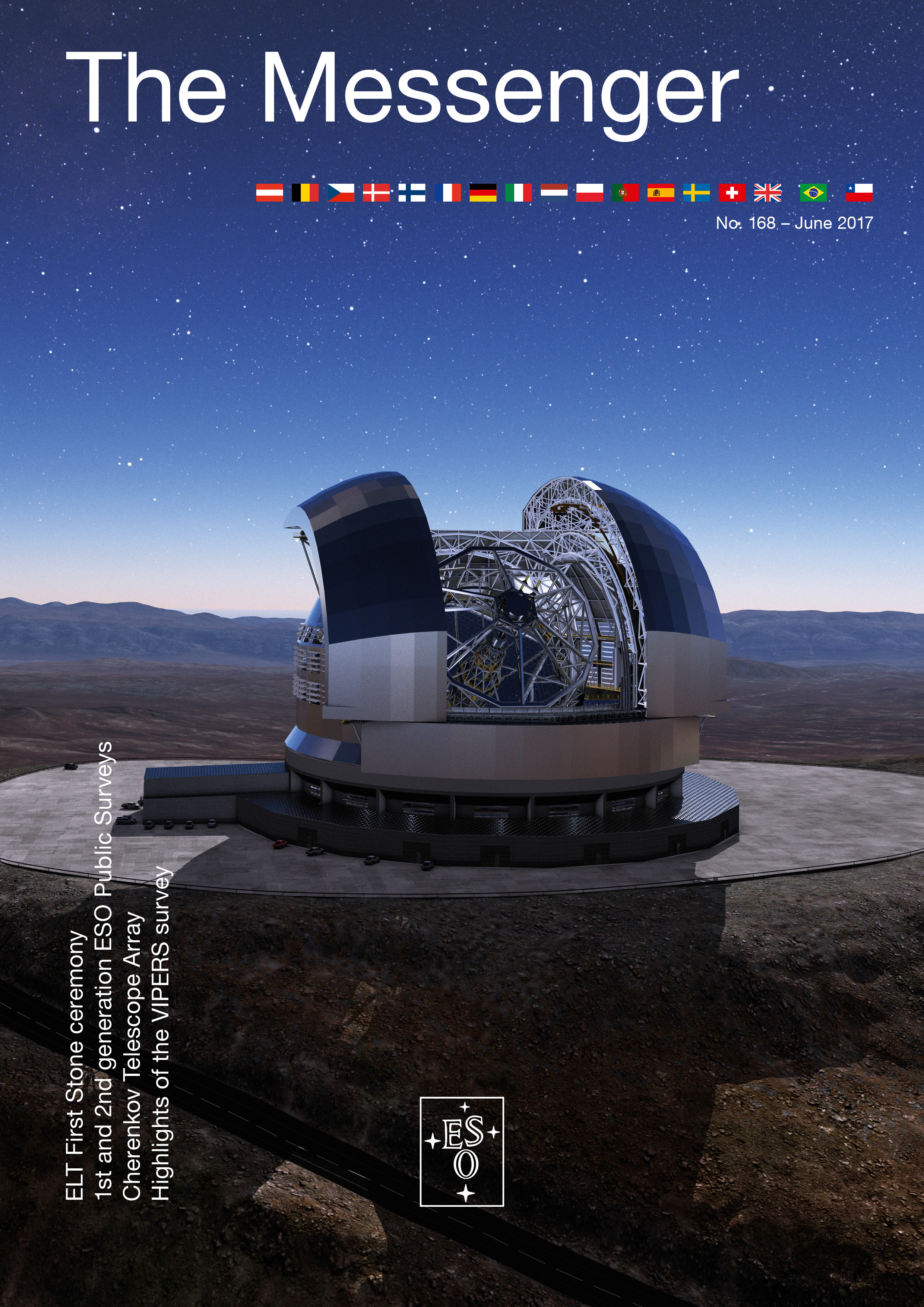 Cover of The Messenger 168. Credit: ESO